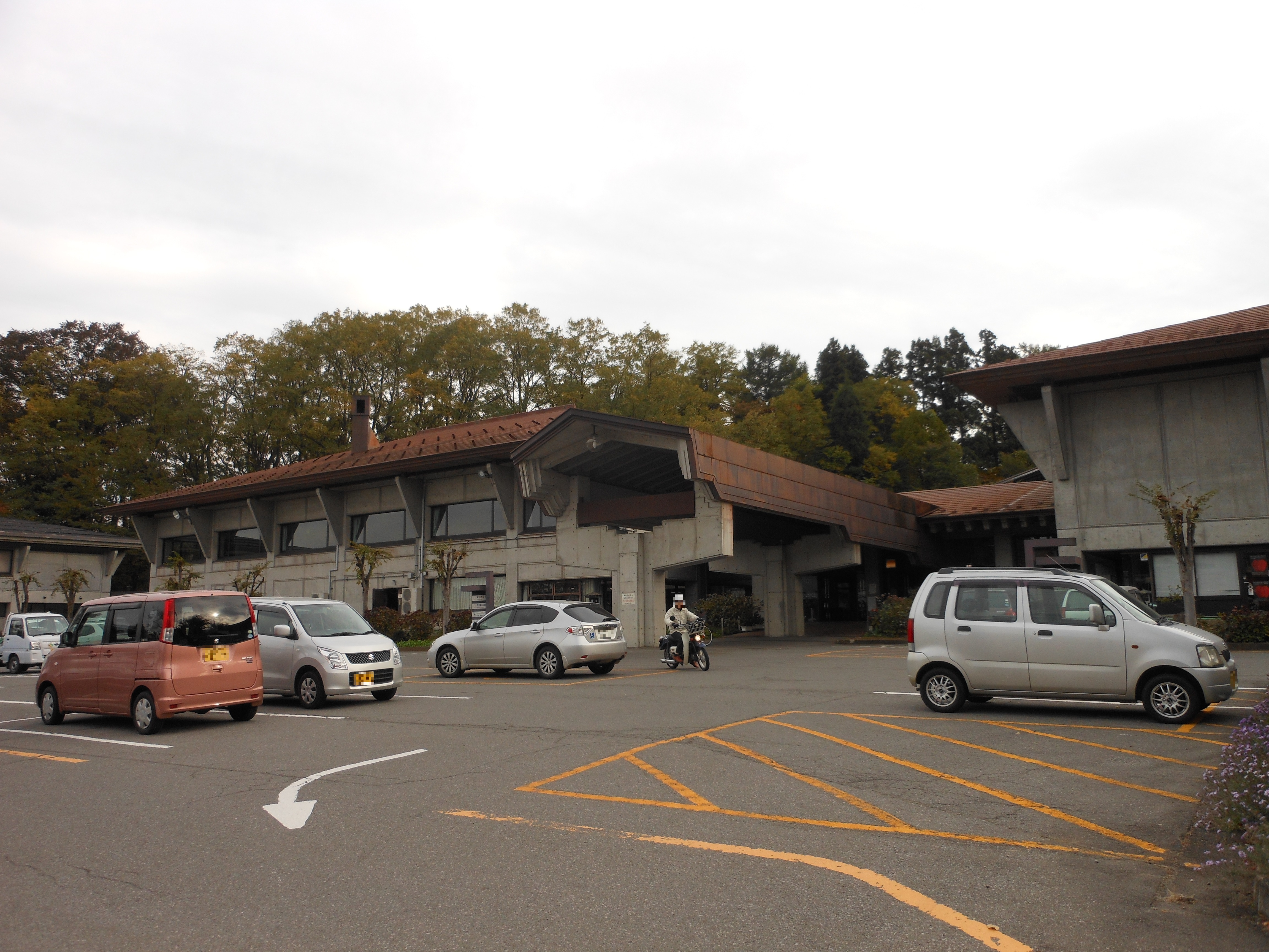 This is Iiyama Community Center, which is in Iiyama, Nagano, Japan. This entrance is also for Iiyama traditional industry hall, Iiyama art museum and Iiyama public library.